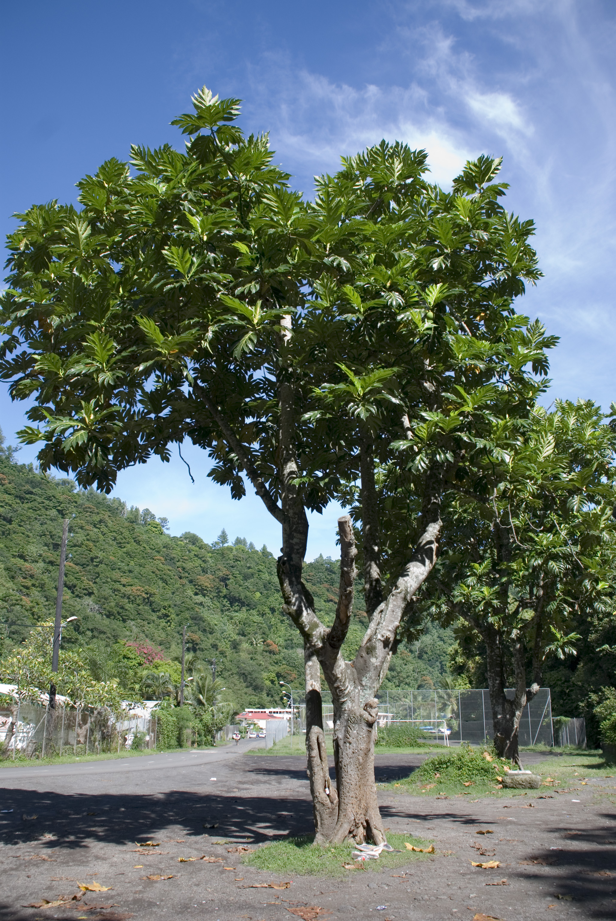 Breadfruit Tree Artocarpus altilis in Bain Loti, Tahiti. Camera data Camera Nikon D80 Lens Nikon AF-S DX 18-135 mm Focal length 20 mm Aperture f/4 Exposure time 250 s Sensivity ISO 100